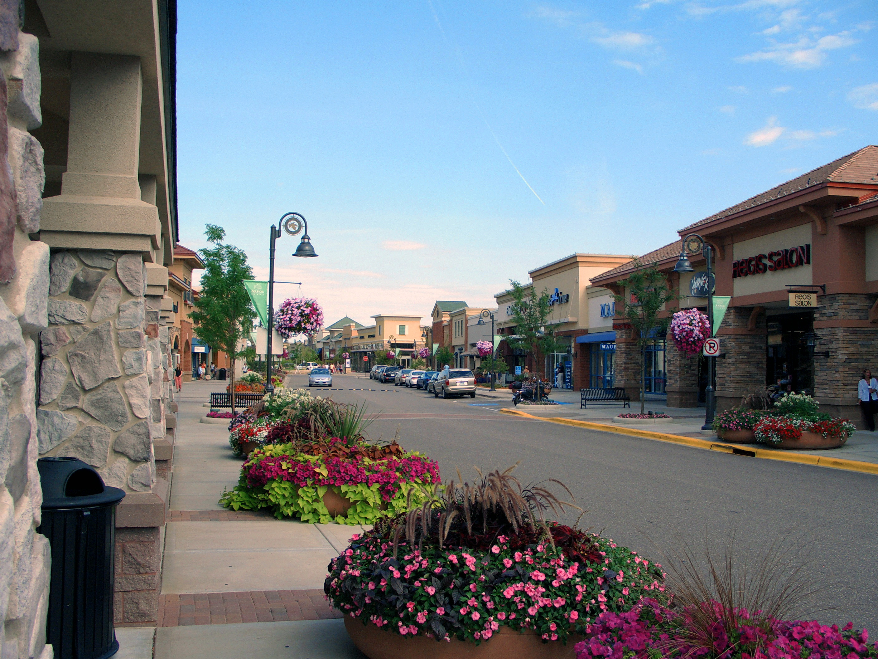 The Shoppes at Arbor Lakes. Minnesota's first lifestyle center mall. Maple Grove, Minnesota. July 2005.